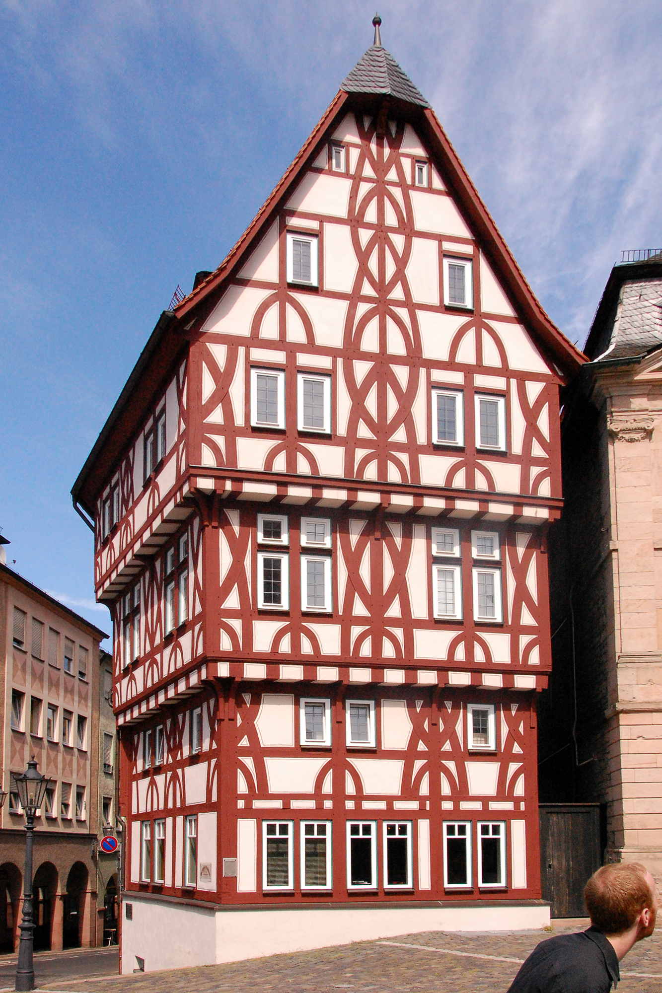 "Löwenapotheke" at the "Stiftsplatz" in Aschaffenburg